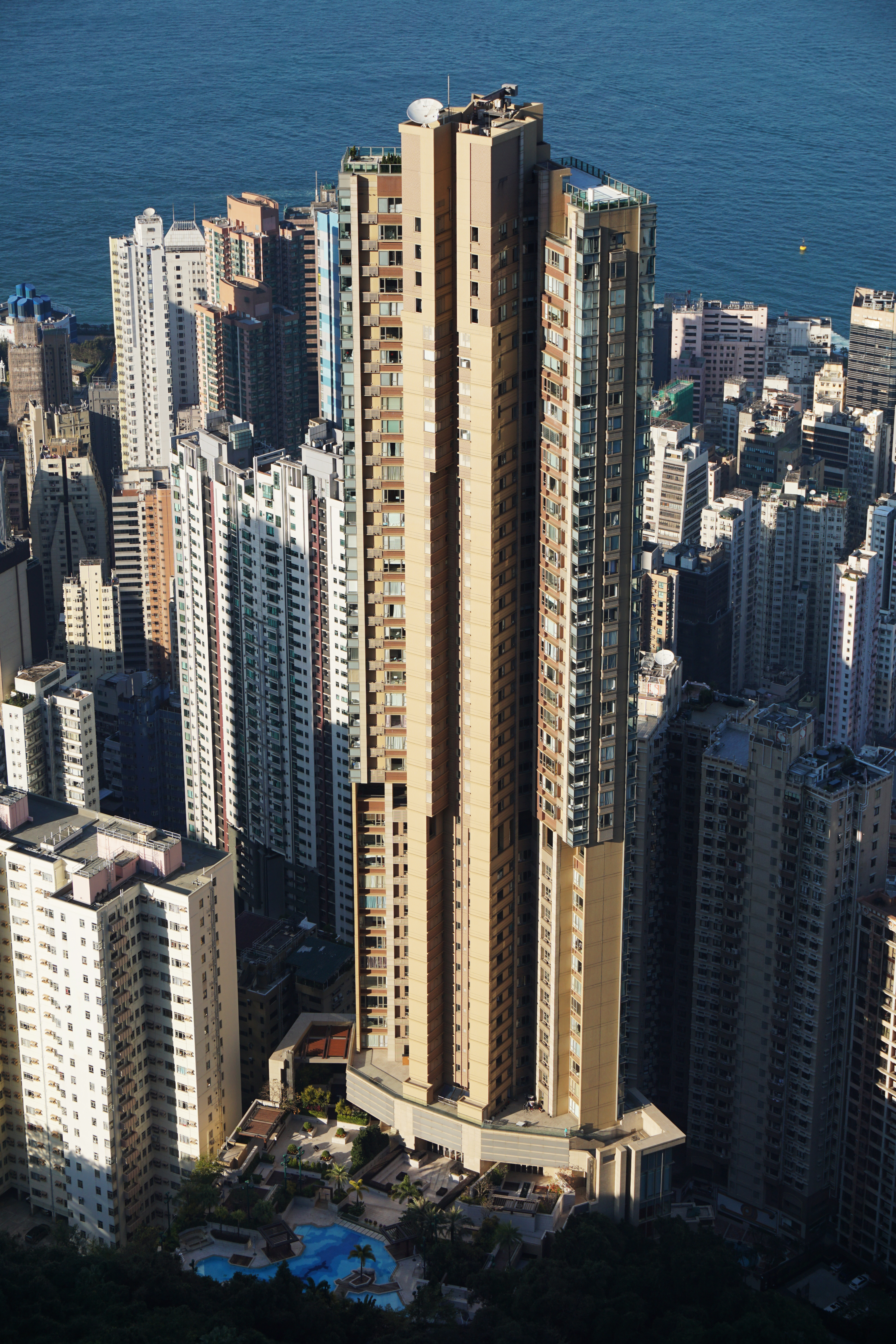 39 Conduit Road in Mid-levels West, Hong Kong.